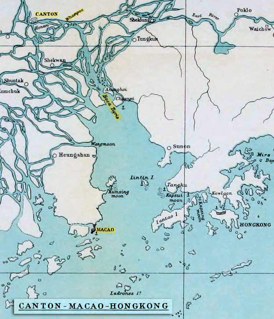 Map of the Macao - Bocca Tigris - Canton approach, Pearl River delta. Cropped and modified.